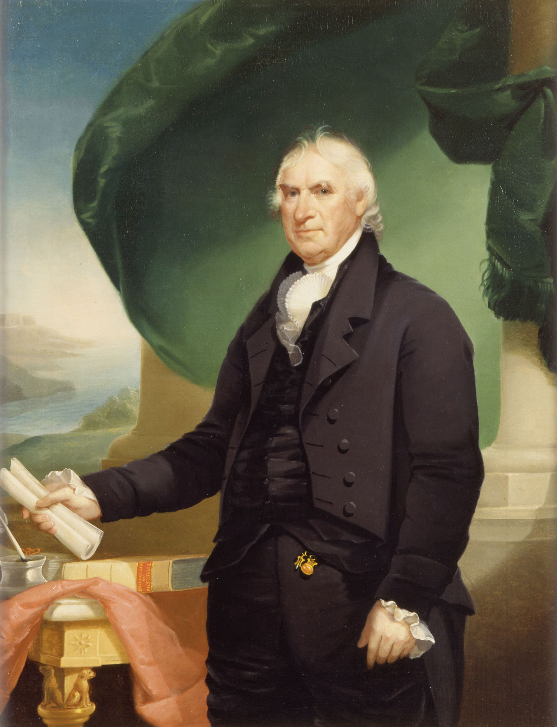 George Clinton, by Ezra Ames